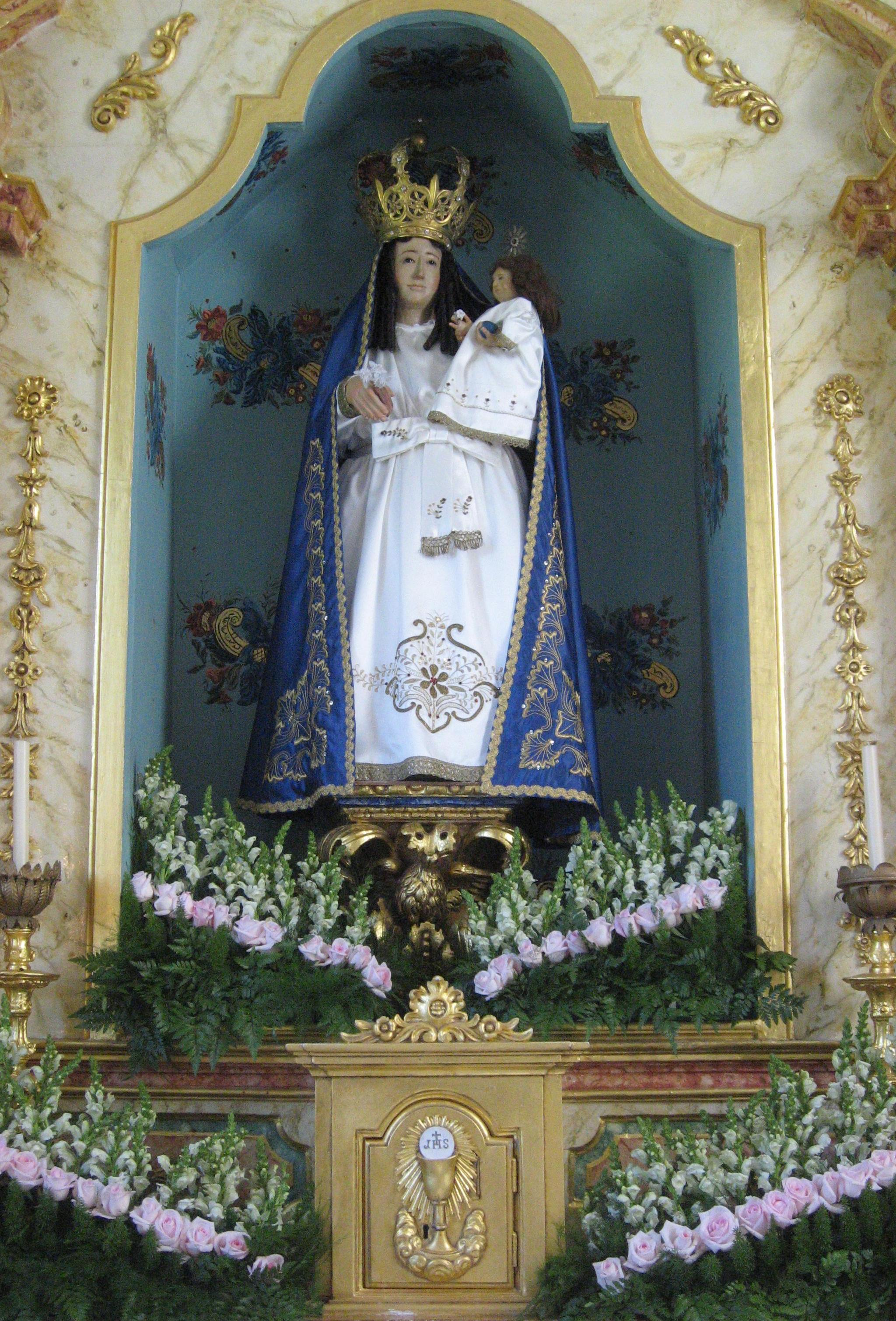 Image of Our Lady of Vagos